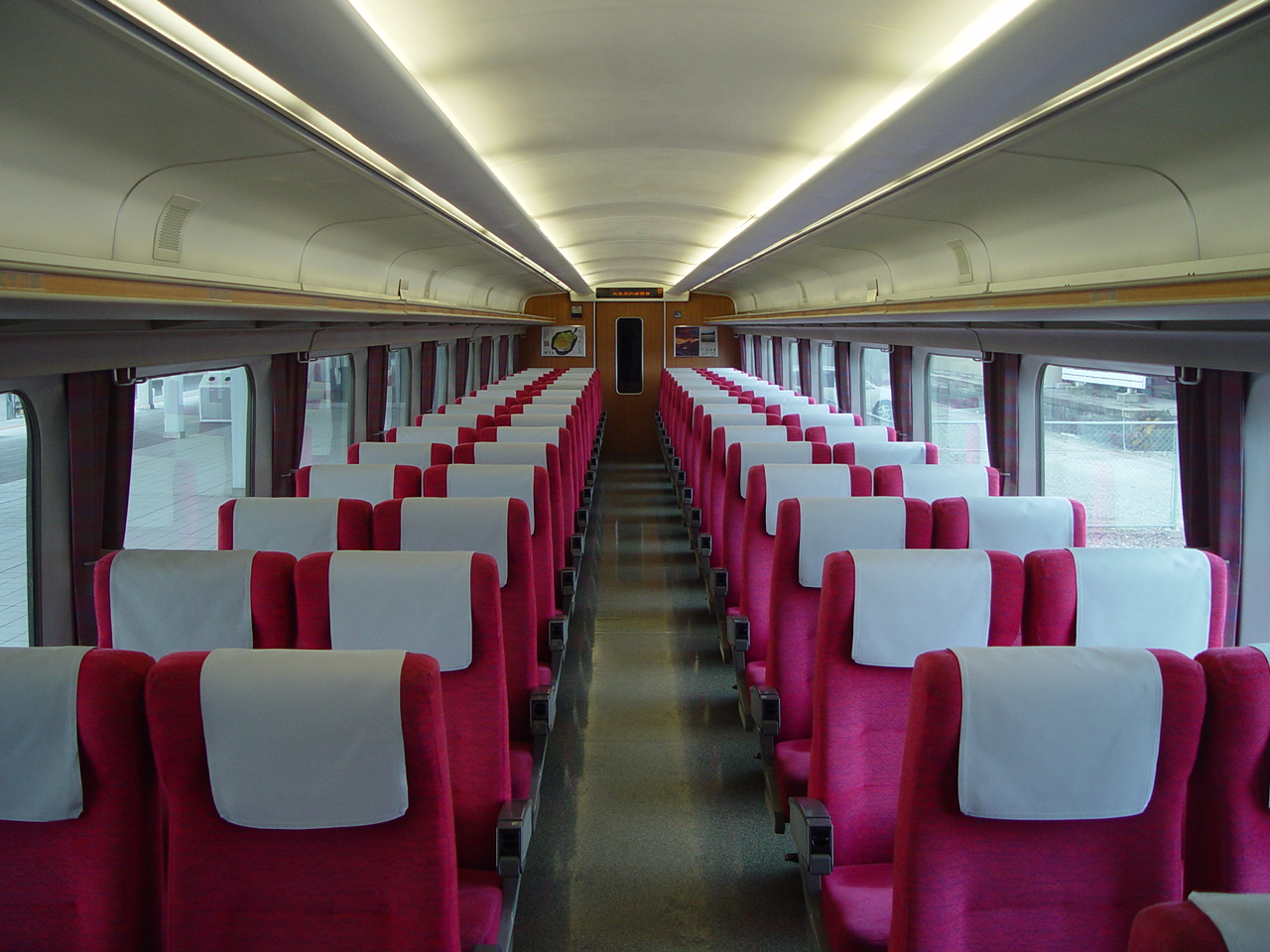 Interior of a JR East 400 series shinkansen standard-class reserved-seating car